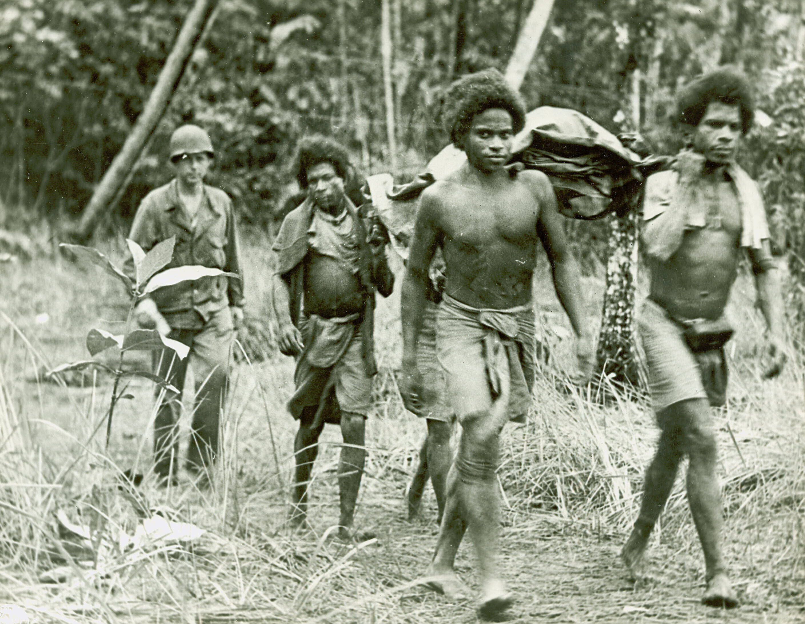 New Guinea tribesmen carrying the body of an American Soldier who was KIA in the fighting near Buna, New Guinea.